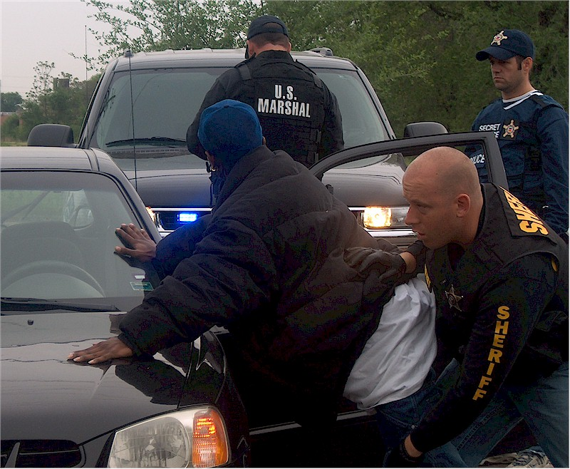 U.S. Marshal Multi-Agency Team Member Searching Fugitive during operation FALCON II